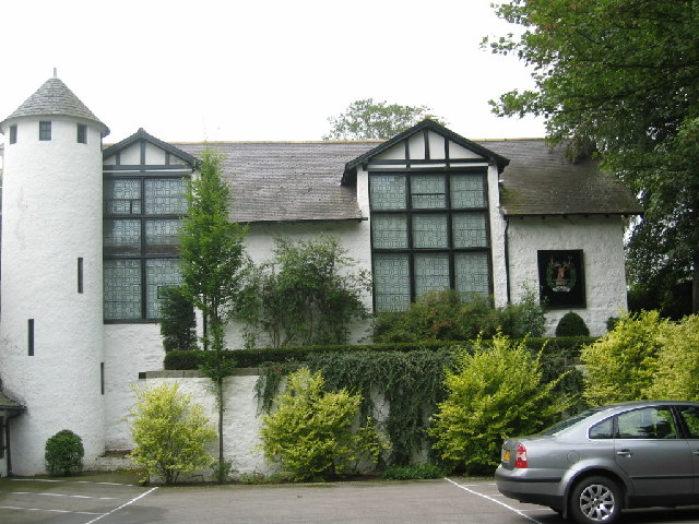 Gordon Highlanders Museum, Viewfield Road contains a fascinating museum and beautiful garden with shop and tea room. Well worth visiting.